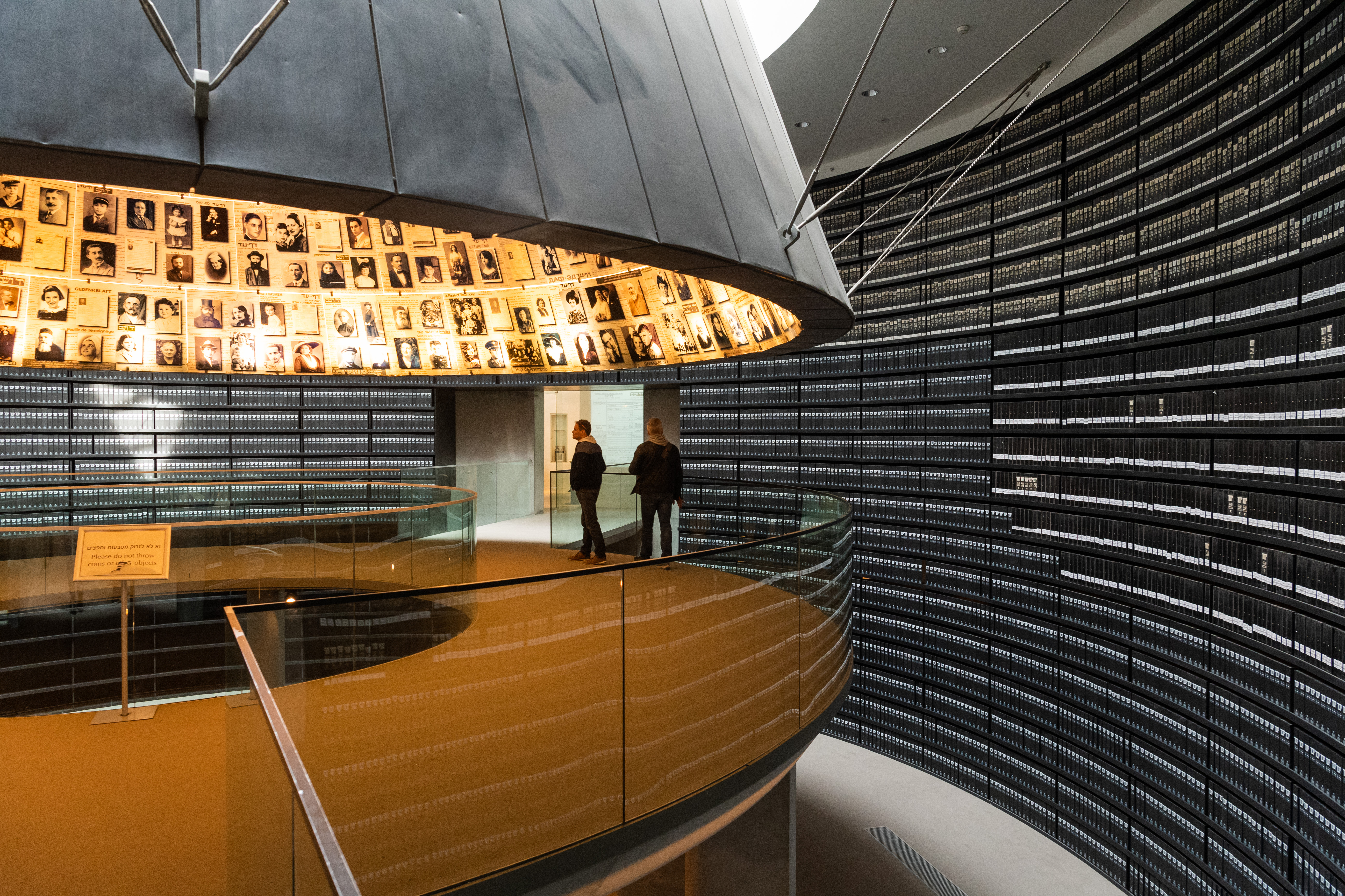 Holocaust History Museum, Yad Vashem